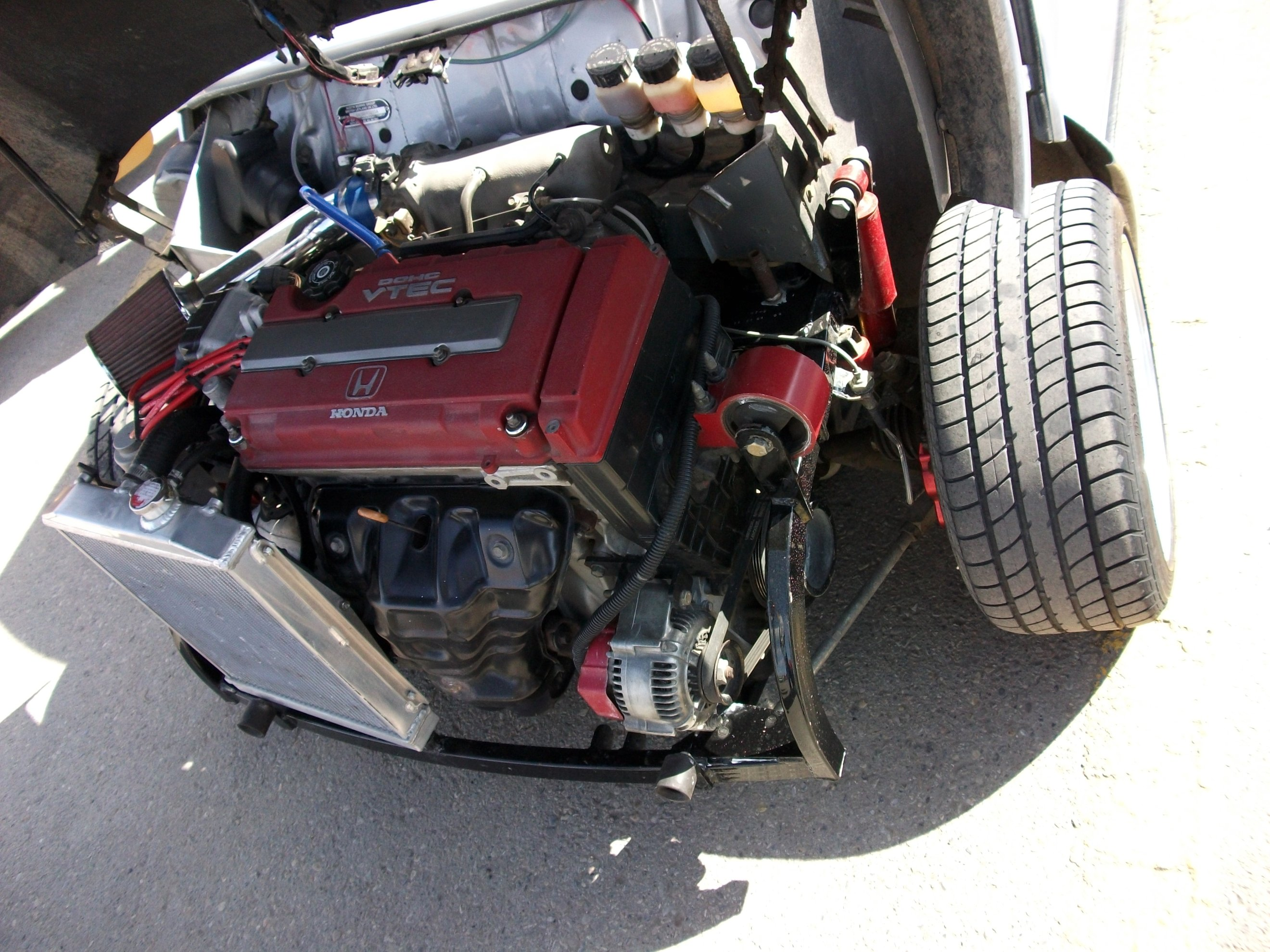 Austin Mini with a Honda engine swap (I believe from a Honda CRV) and custom flip front end. Exterior looked to be updated to more 80s-90s style.